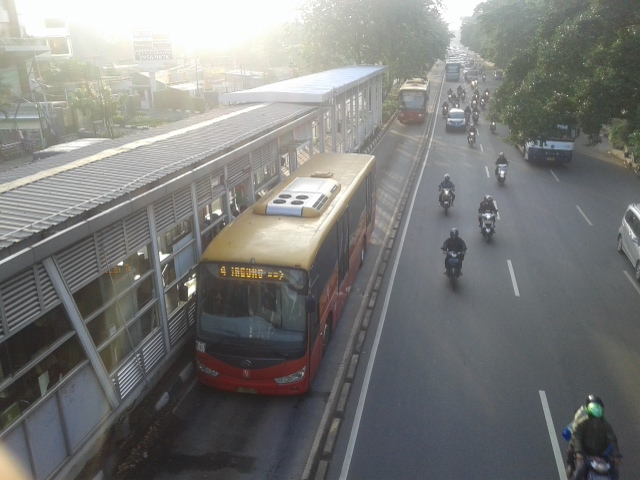 Busway Line On Jalan Pramuka, Rawamangun, East Jakarta